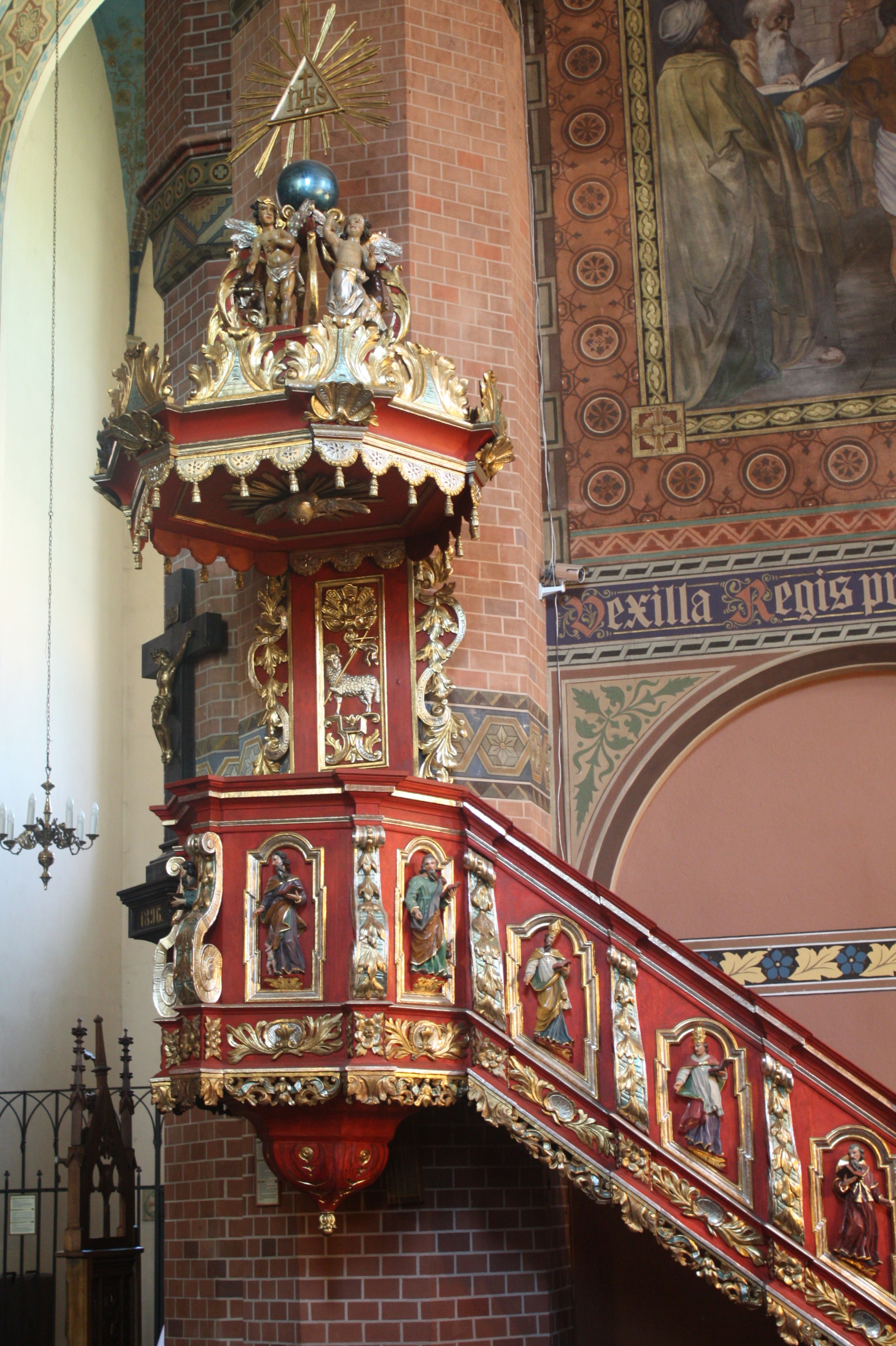 Tczew, Holy Cross Church